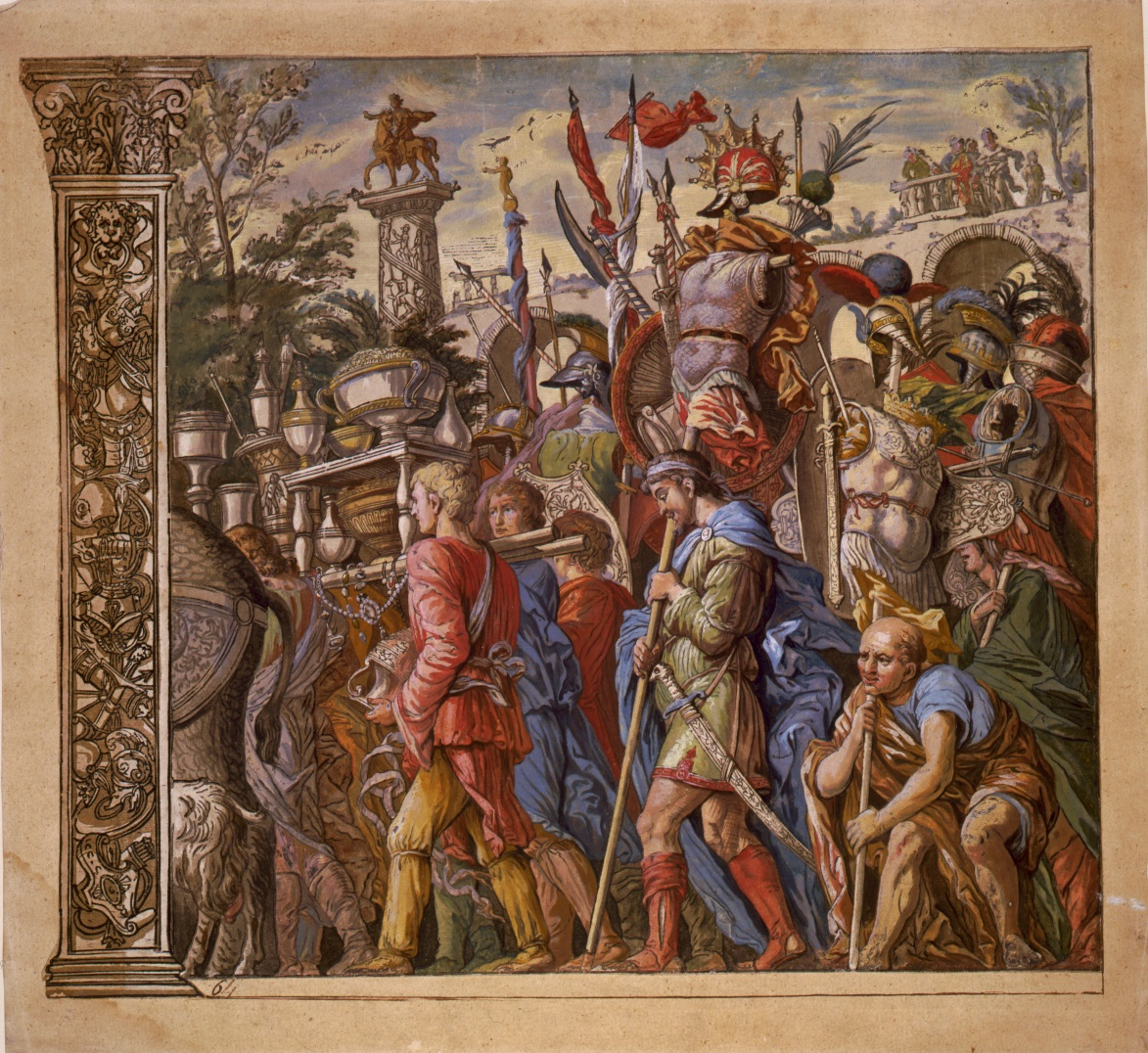 Triunph(us) Caesaris (The triumph of Julius Caesar), plate 6. Plate 6 from series showing people in triumphal procession of Julius Caesar. After the painting by Andrea Mantegna. Chiaroscuro woodcut with gouache.